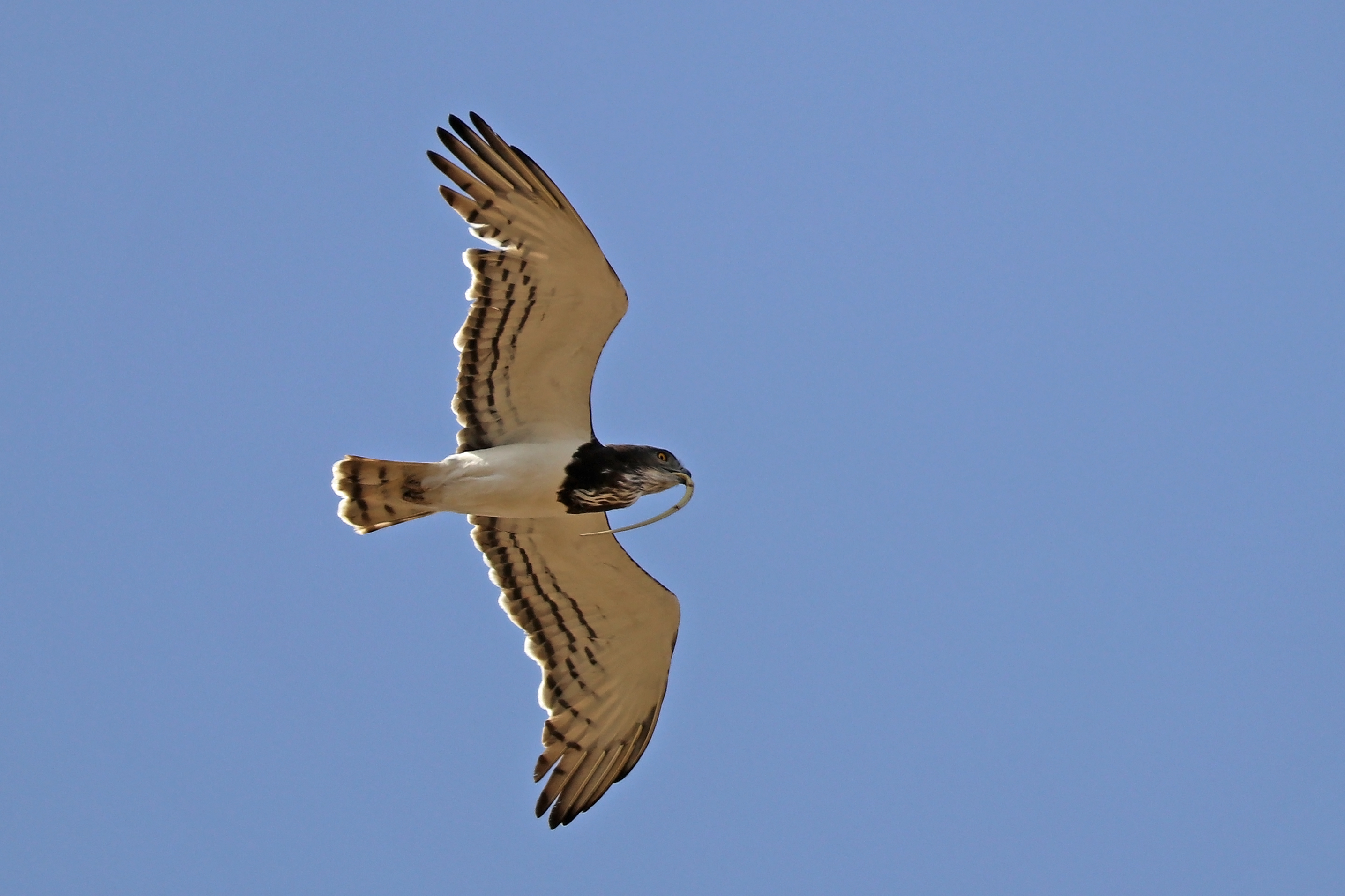 Black-chested Snake Eagle Circaetus pectoralis in flight (with a snake), Awash National Park, Ethiopia